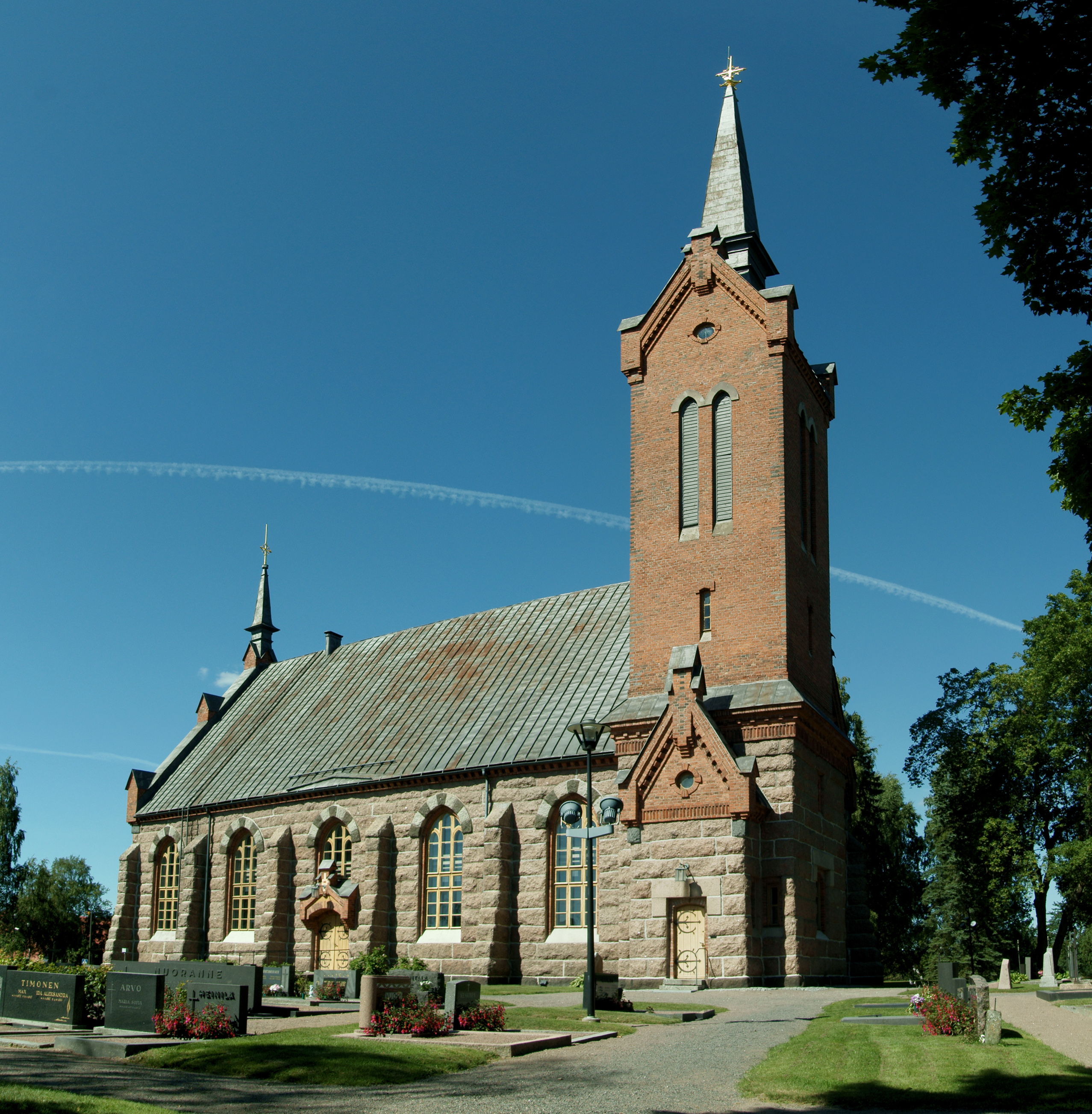 Eura Church in Eura, Finland.